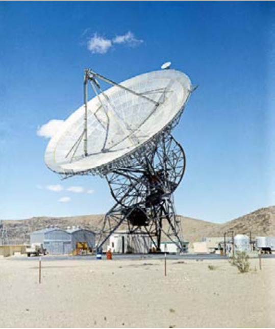 Pioneer Deep Space Station